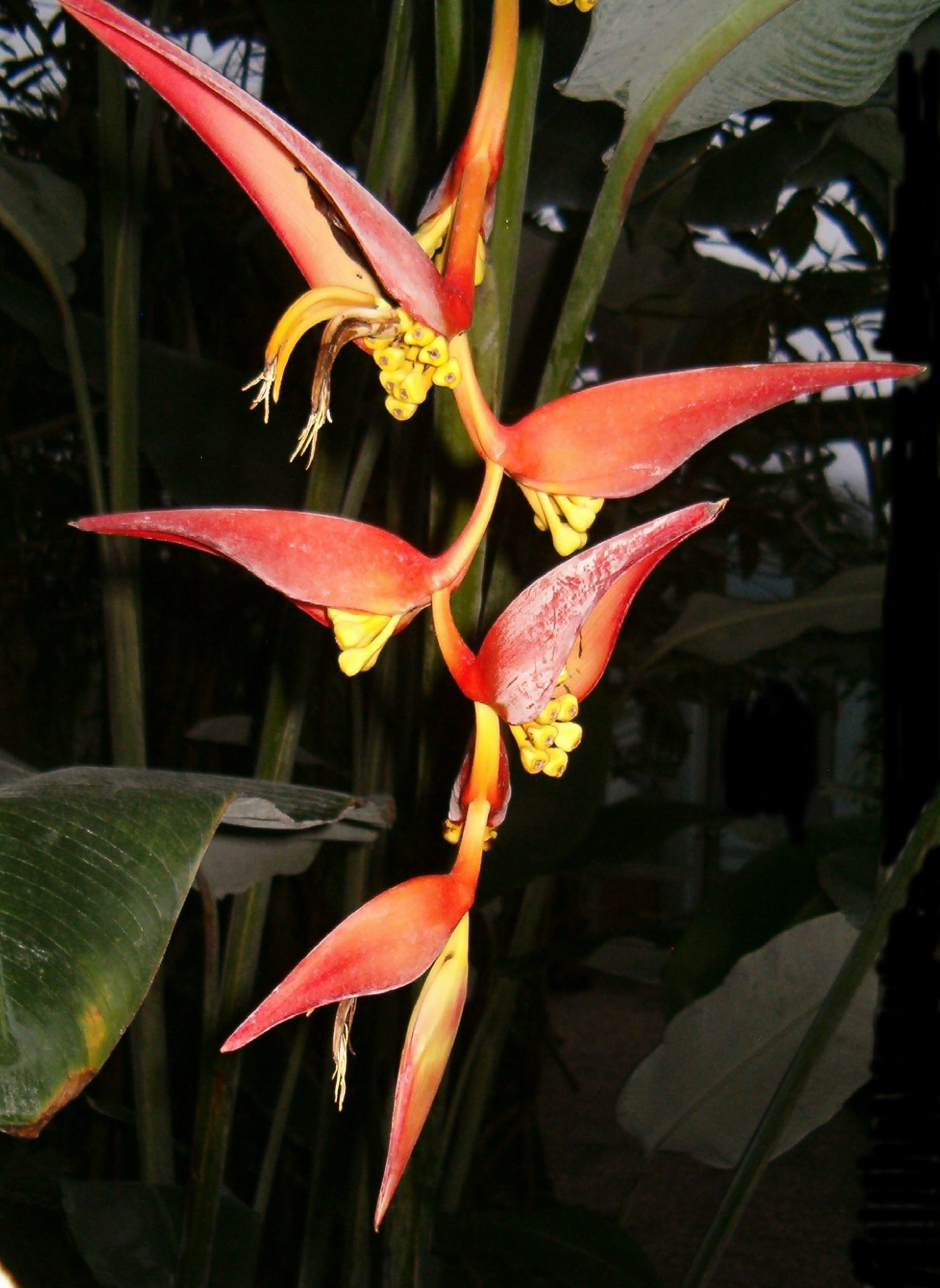 Location: Botanical Gardens Berlin Dahlem